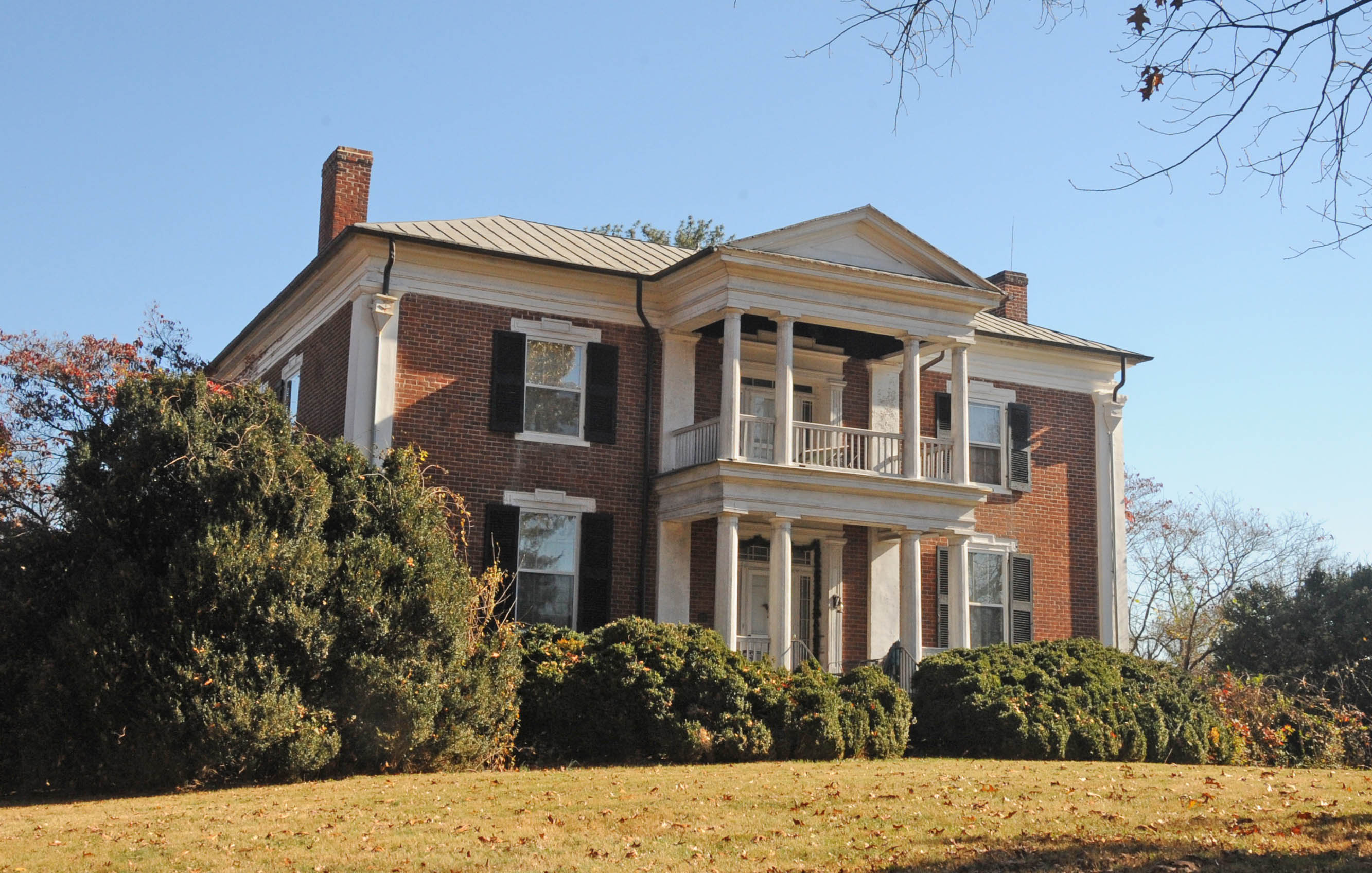 GREEK REVIVAL MANSION BUILT IN 1849 AS PART OF THE GREATER DEYERLE NEIGHBORHOOD. IT WAS BUILT FOR THE PITZER FAMILY